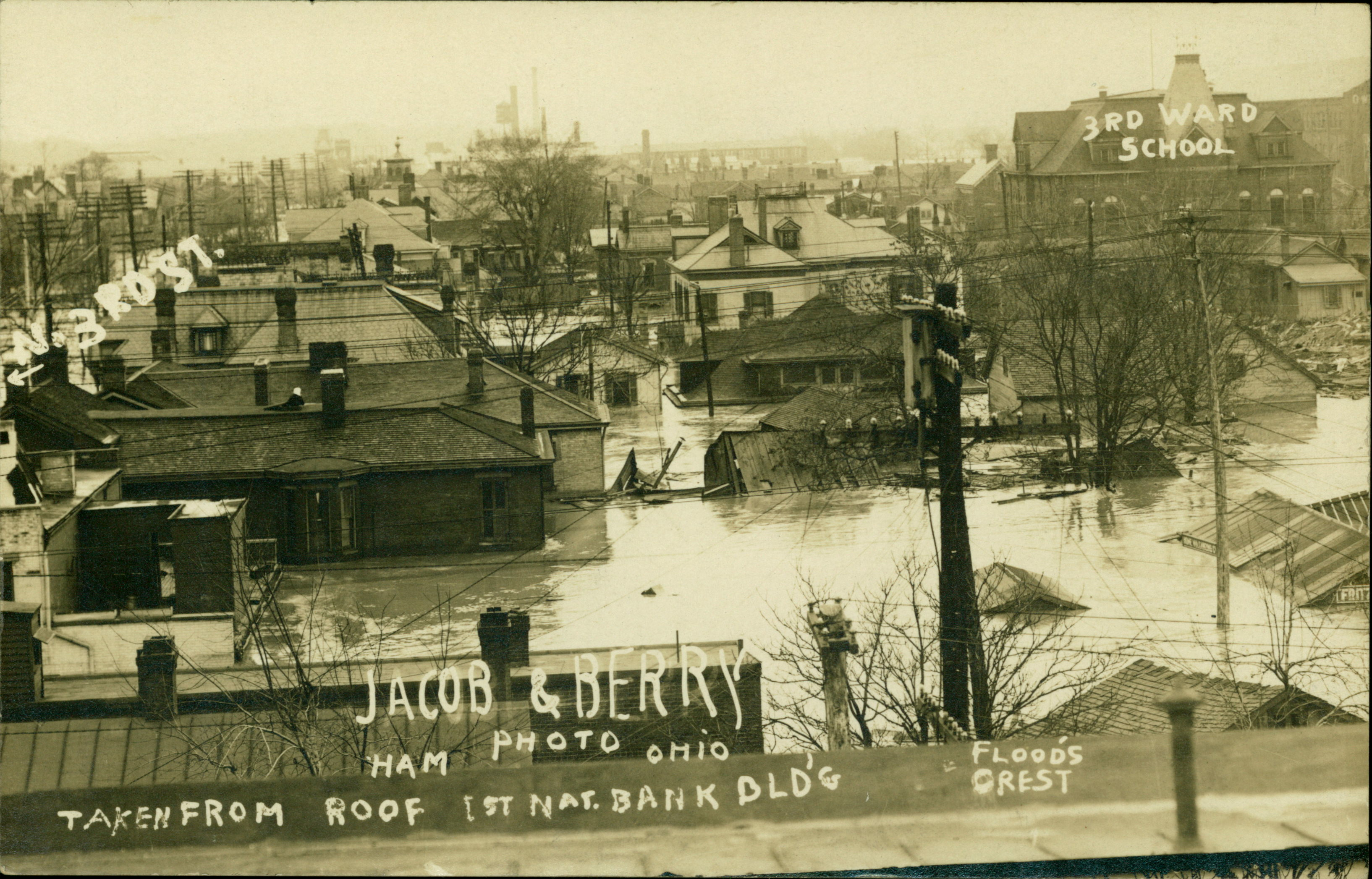 Persistent URL: Subject: Floods; Flood damage; Buildings; Rivers; Disasters; Ohio--Hamilton; miami digital collections; bowden postcard collection